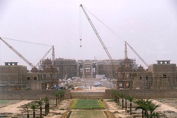 Construction of the (Delhi) Akshardham Monument in Delhi, India